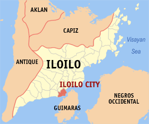 Map of Iloilo showing the location of Iloilo City